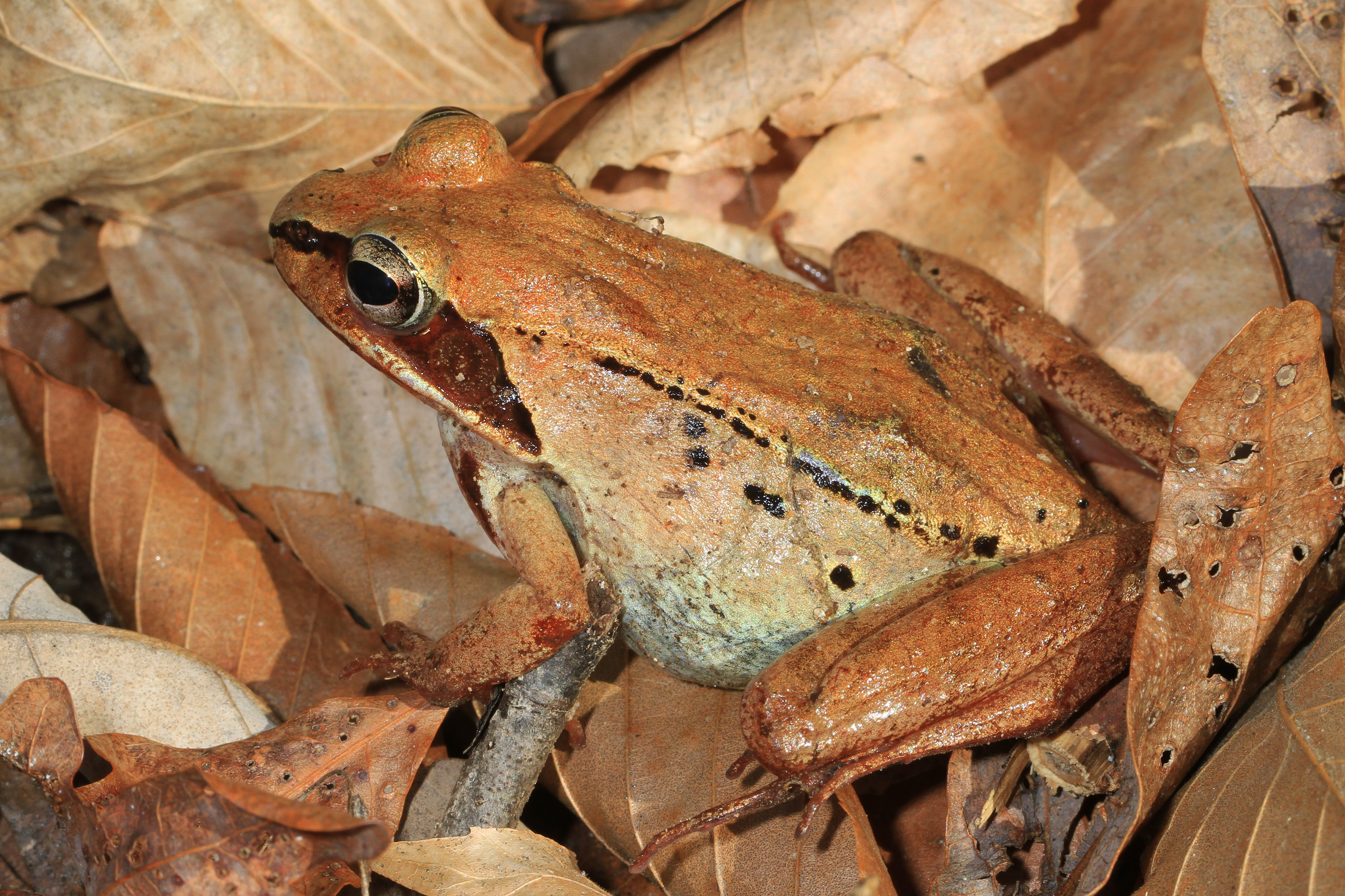 Wood Frog - Lithobates sylvaticus, Lake Accotink Park, Springfield, Virginia